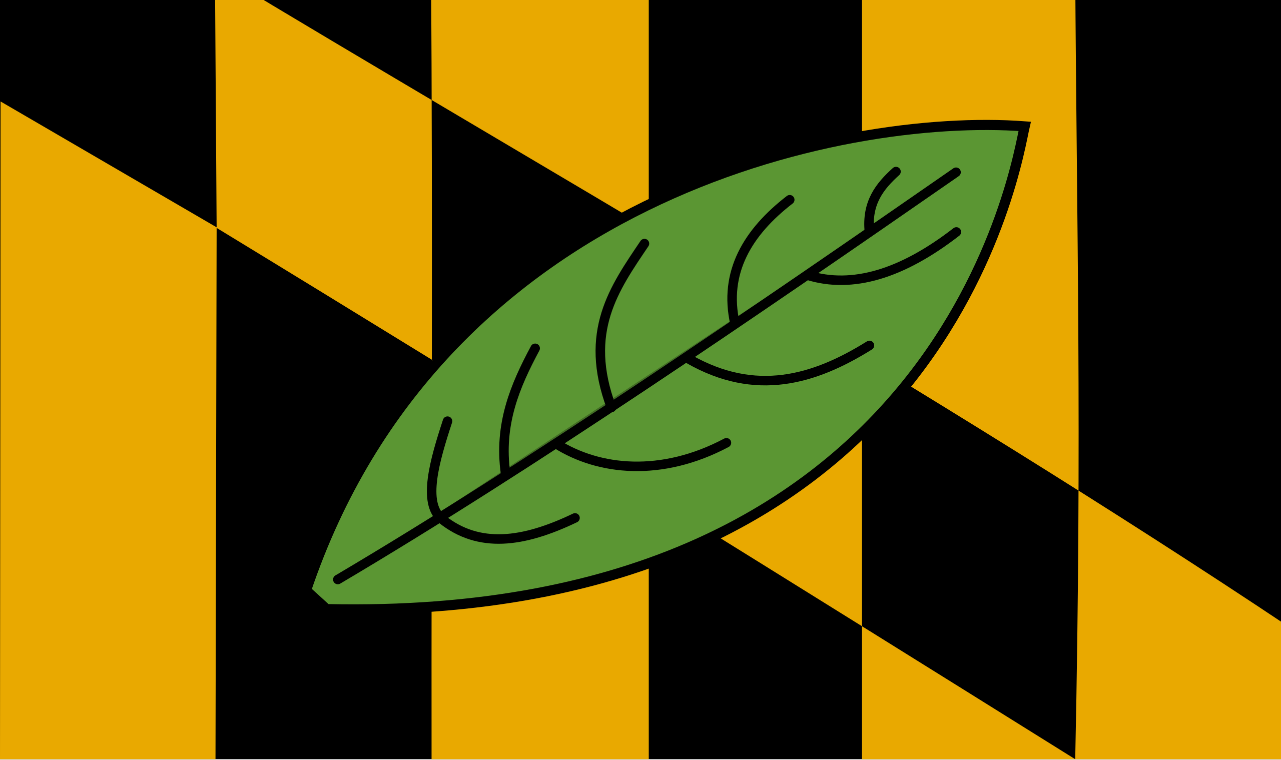 The official flag of Calvert County, Maryland. Created by Mrs. Robert M. Coffin, Calvert County Historical Society. First flown on May 21, 1966 in St. Leonard, Maryland, it was officially adopted by county resolution on June 7, 1966. Early editions of the flag had a brown leaf, although that leaf became standardized as green later on, as of March 17, 1972. More information regarding the flag can be found here.